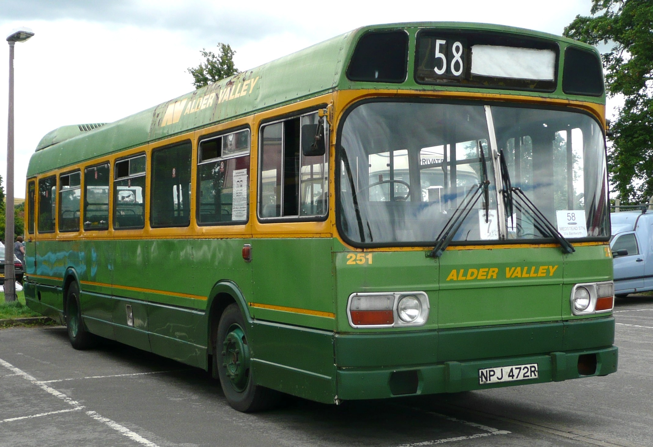 Alder Valley's 251 (NPJ 472R), a Leyland National, at the 2008 Alton bus rally at Anstey Park.